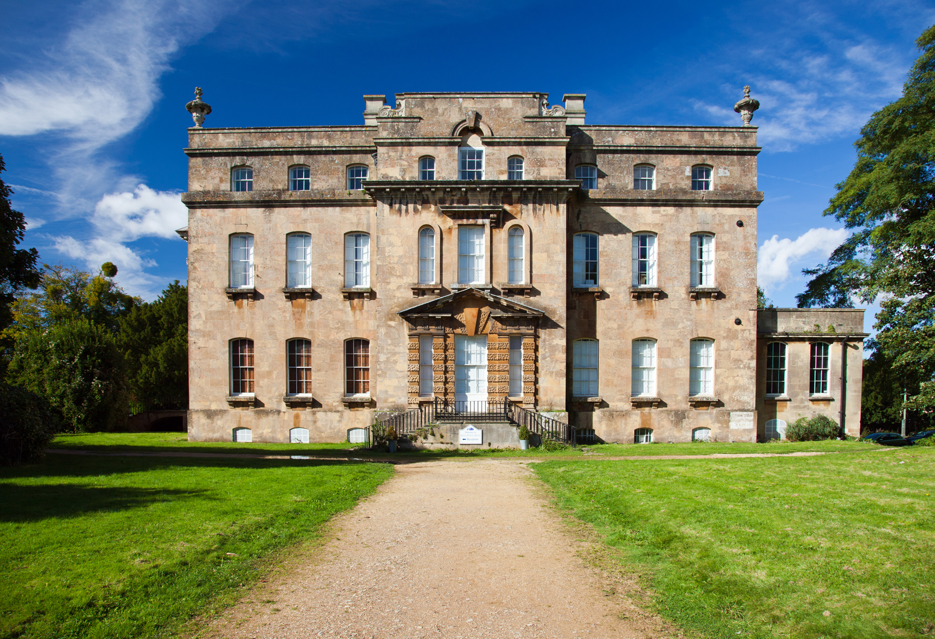 Kings Weston House, Bristol. The Garden Front seen from the south west. Sir John Vanbrugh, 1712